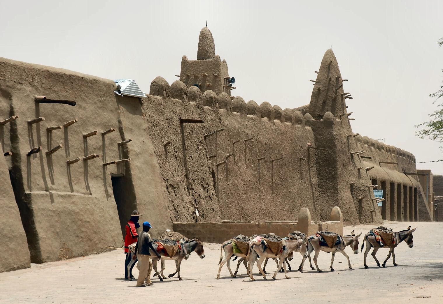 Timbuktu, preferred method of transport, Mali, W. Africa, The team of donkeys walks past the mud mosque laden with with their heavy items of transport. The mud wall's protruding wood beams and the relaxed gait of the animals and people add to the gentle scene. The donkey in the lead shows a slightly raised head making the others aware that he is the leader of the pack. Timbuktu, Mali, Sub Sahara, W. Africa Timbuktu